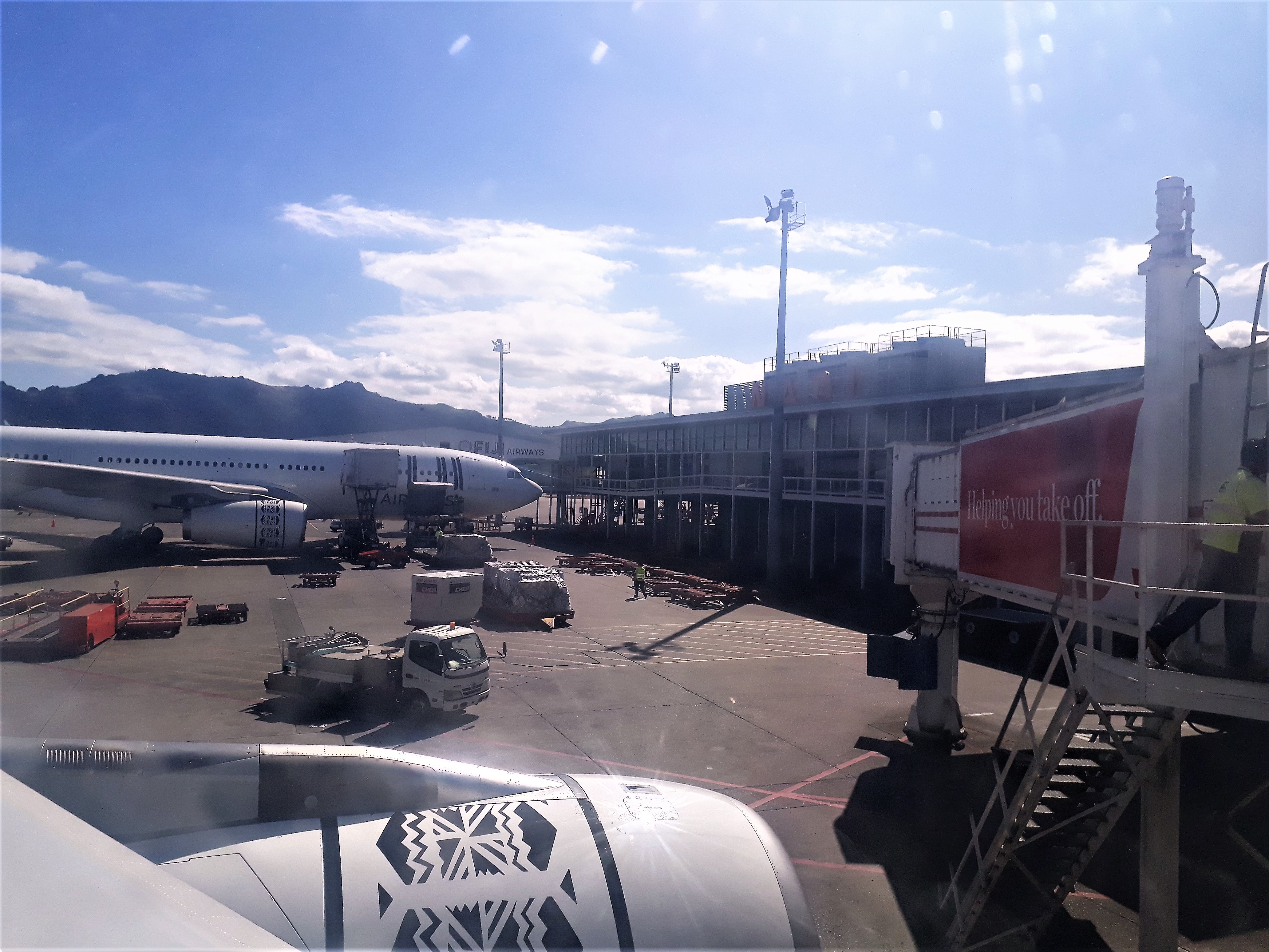 Nadi Airport.